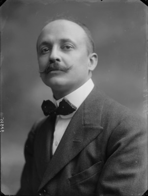 Filippo Marinetti